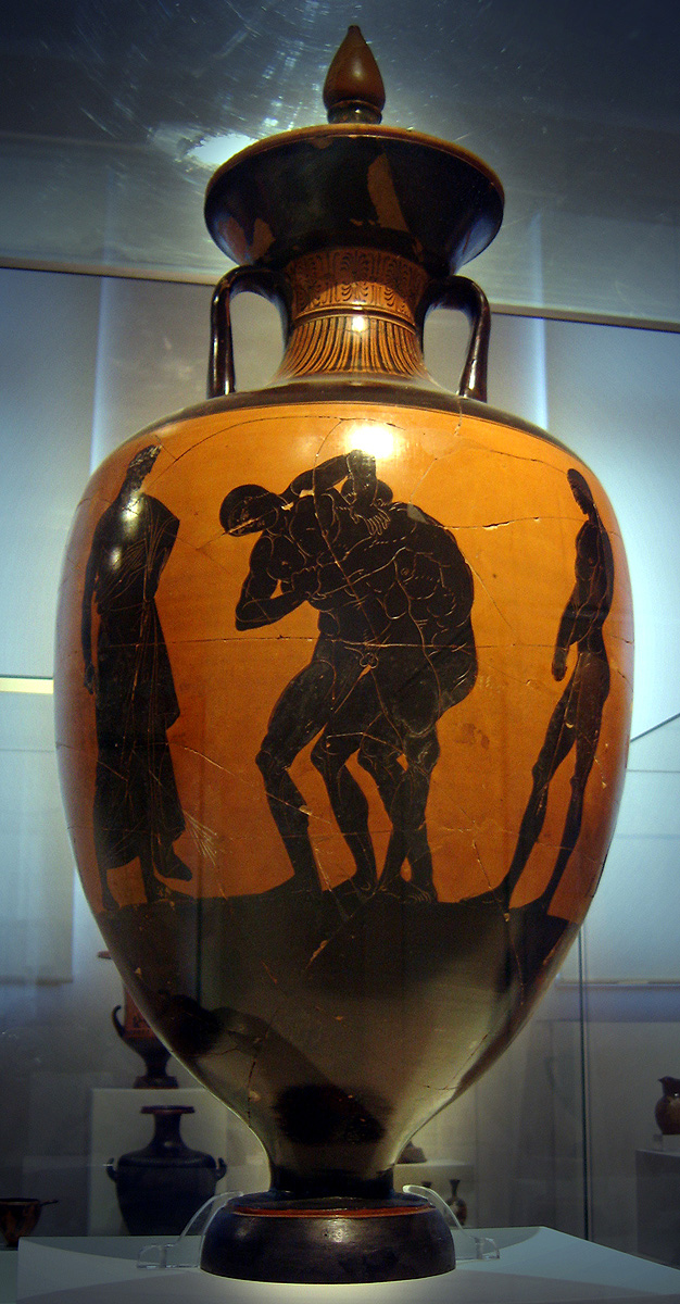 Amphora depicting fighting athletes. National Archaeological Museum of Athens .